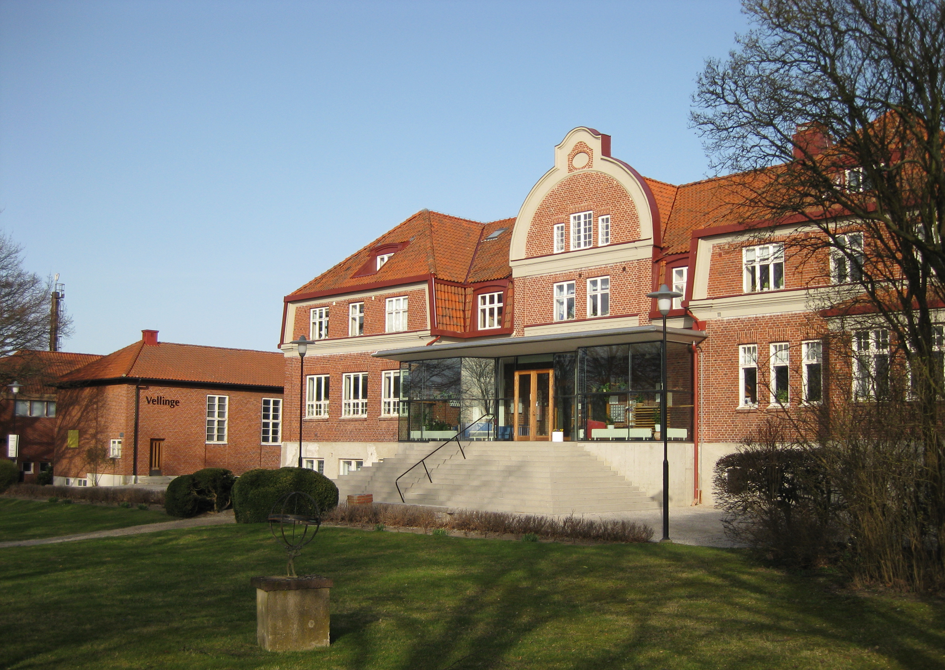 Östra Grevie folk high school